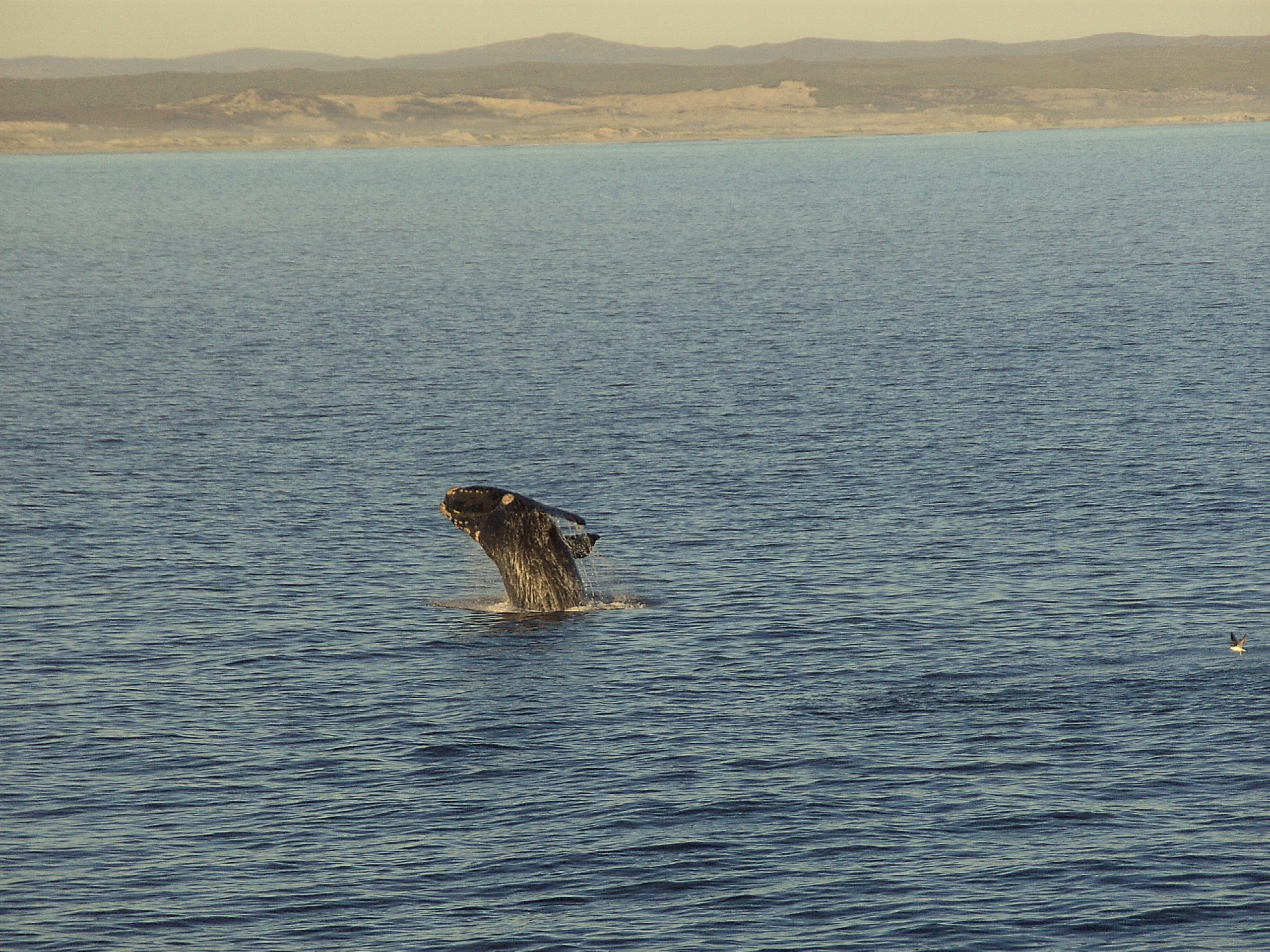 wale in hermanus with in the back hermanus' beach.